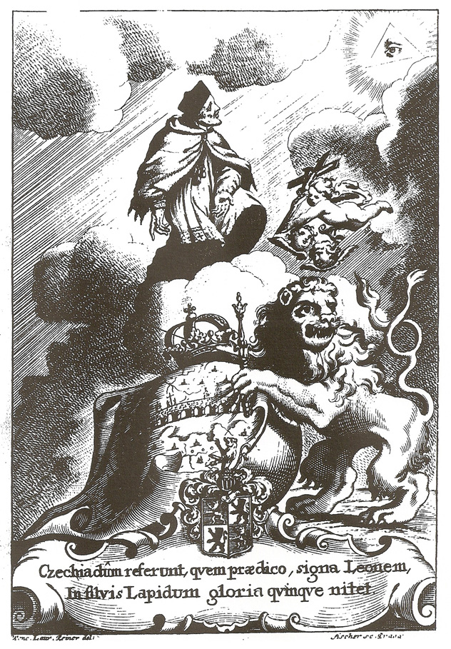 Symbolic subtitle of the engraving, originally from the dissertation of Th.J.Siddener, reprinted in the book by Vít Vlnas "Jan Nepomucký, Czech legend", frontispiece